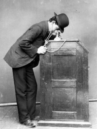 Publicity photograph of man using Edison Kinetophone, ca. 1895